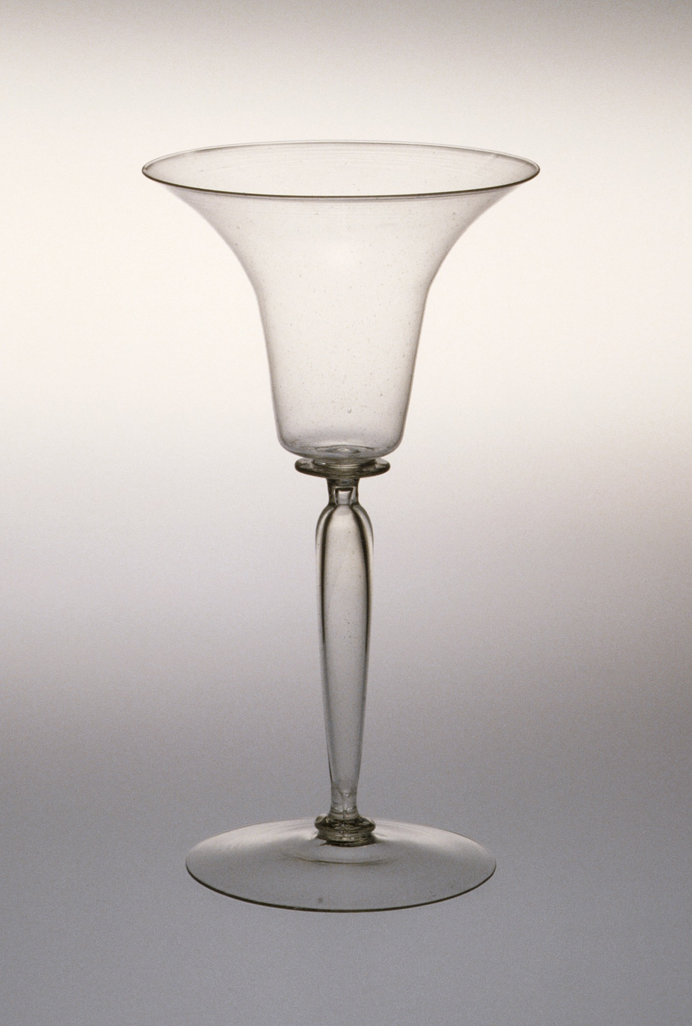 Italy, Venice, circa 1550-1650 Furnishings; Serviceware Colorless, free-blown and pattern-molded cristallo glass. Gift of Mr. and Mrs. Eric Scudder, Miss Bella Mabury, Dorothy S. Blankfort, Mr. and Mrs. Jerome K. Ohrbach and others (M.85.150.15) Decorative Arts and Design